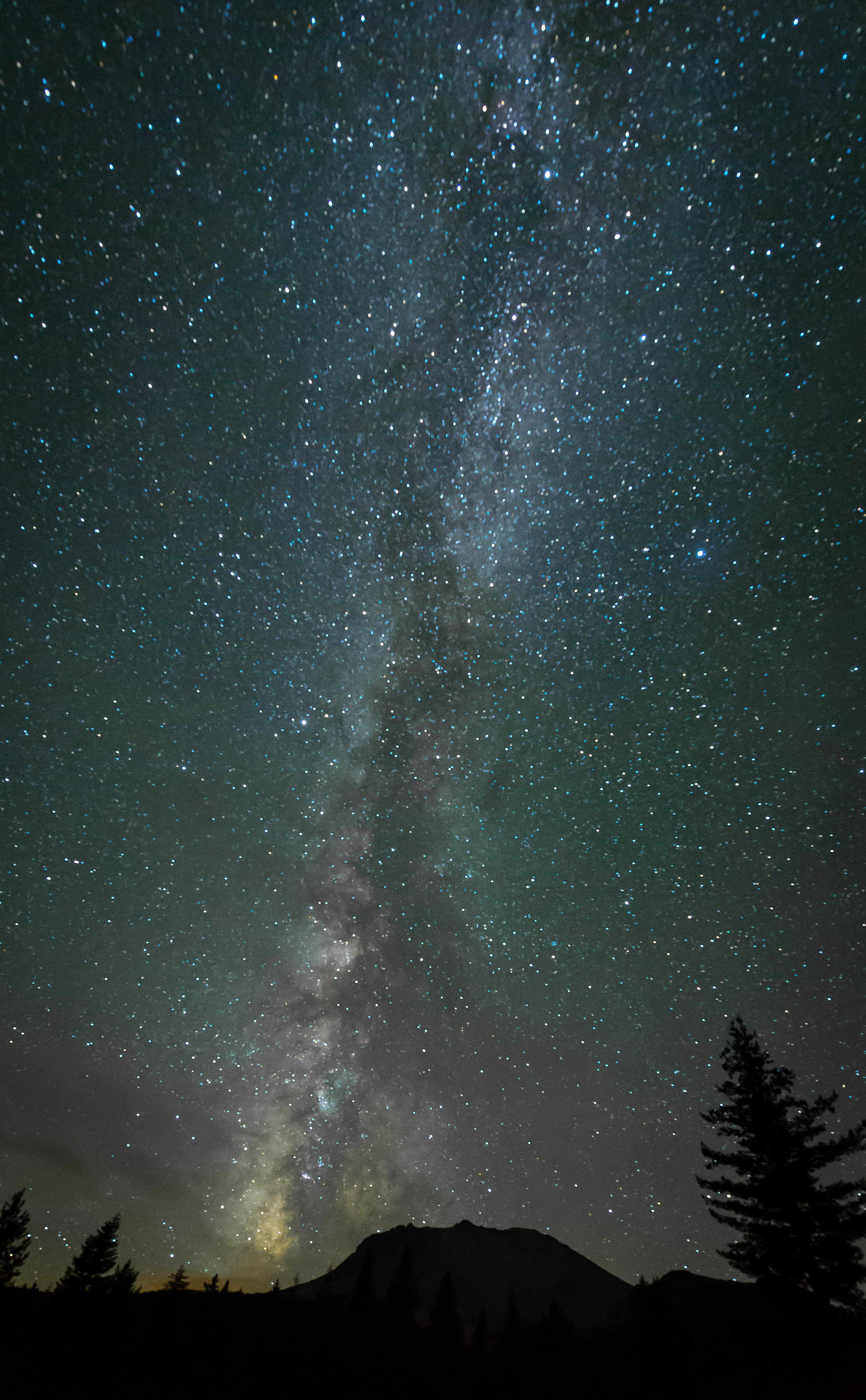 By volunteer photographer Alison Taggart-Barone